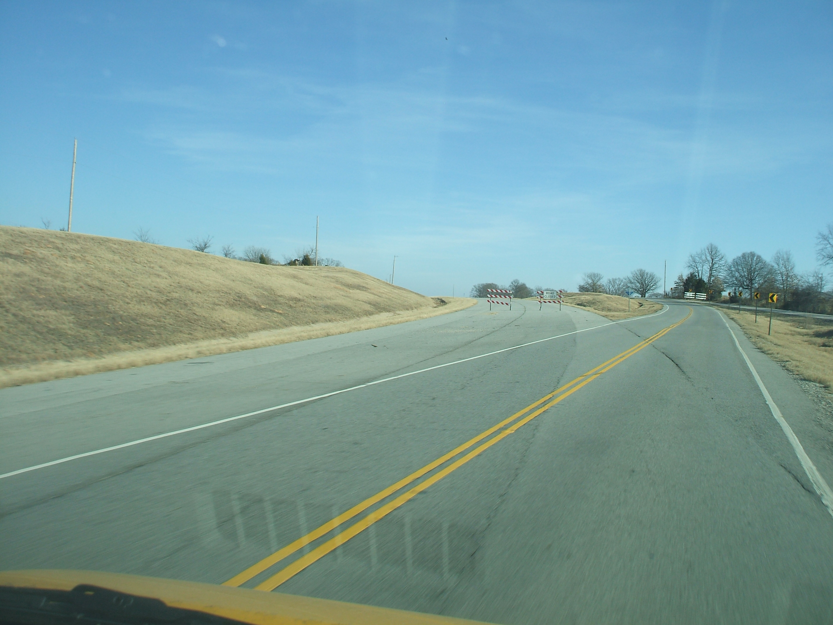 SR 3 eastbound east of Atoka, OK.